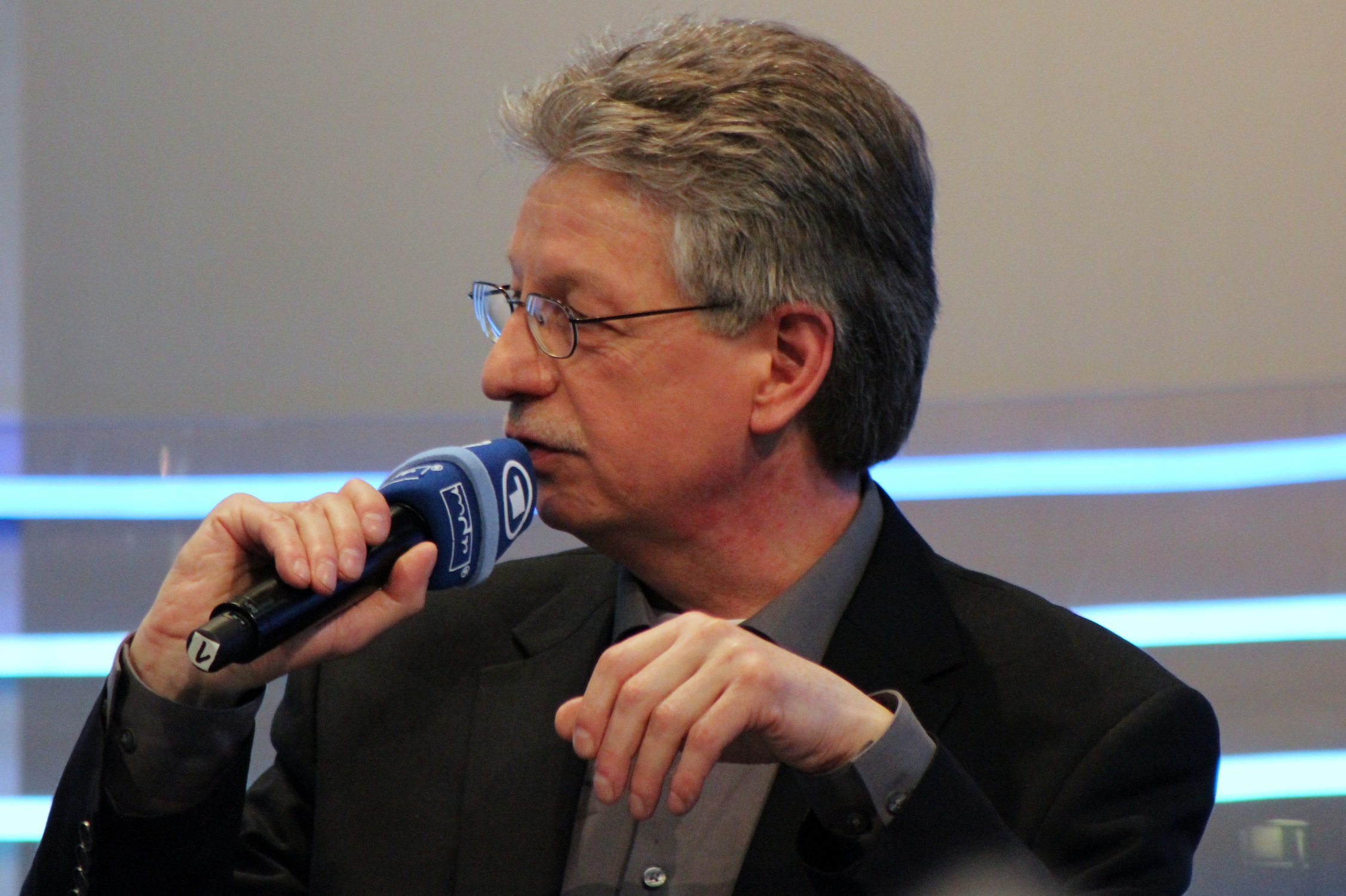 Reinhard Jirgl, Leipzig Book Fair 2013